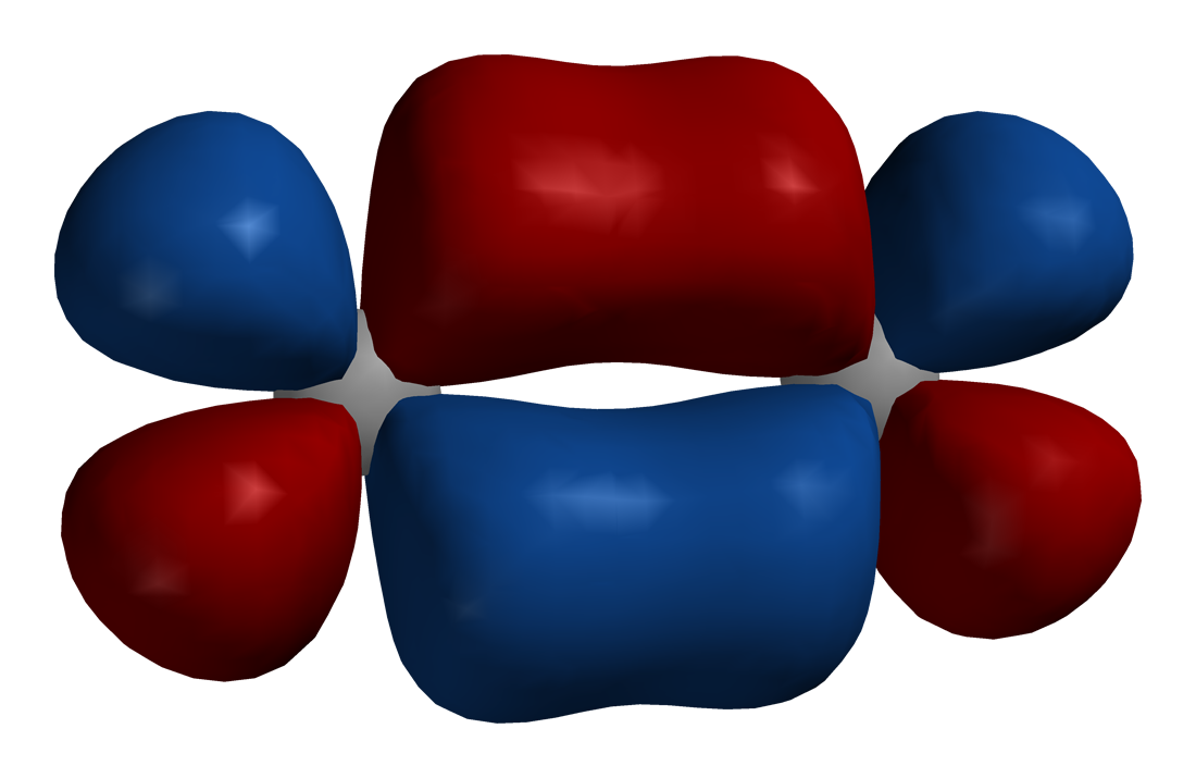 Space-filling model of a pi bond (bonding molecular orbital with π symmetry) generated by the overlap of two d orbitals